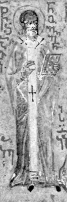 St. Athinogen Sebastian